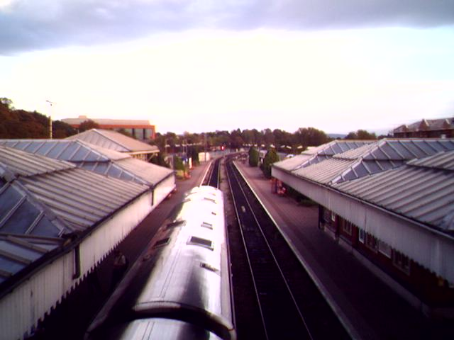 Aylesbury railway station - looking from the bridge at plaforms 3 & 2, facing southbound.